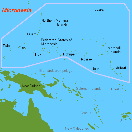 Map (rough) of Micronesia, Oceania, own work composed from various map references